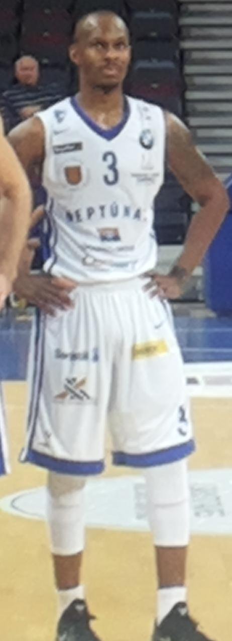 Daniel Ewing with Neptūnas jersey in 2015.